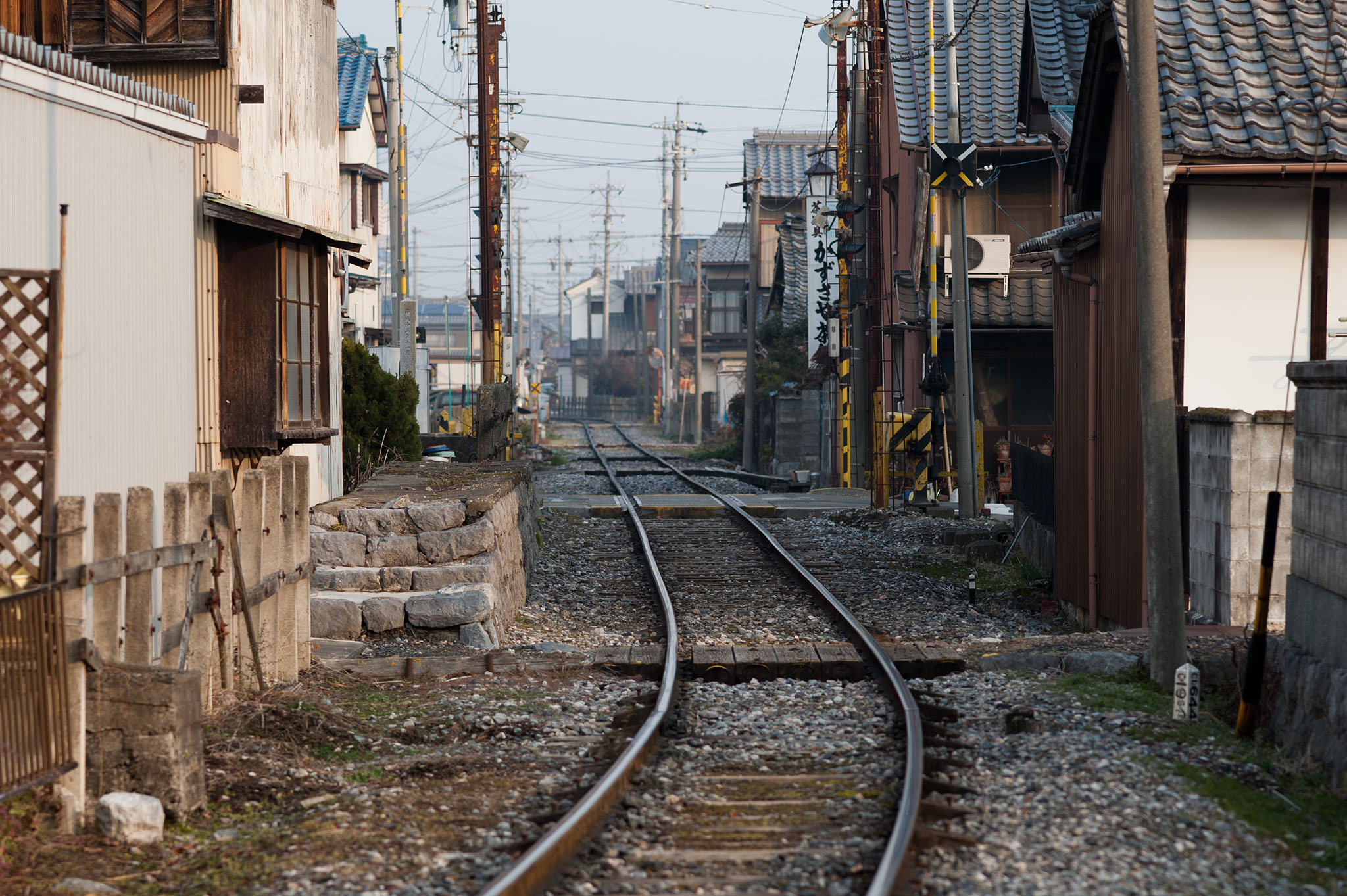 Seino Railway Akasaka-Honmachi Station (obsolete)